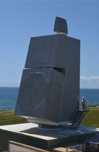 AN/SPY-6 AMDR ground test-bed proofhouse